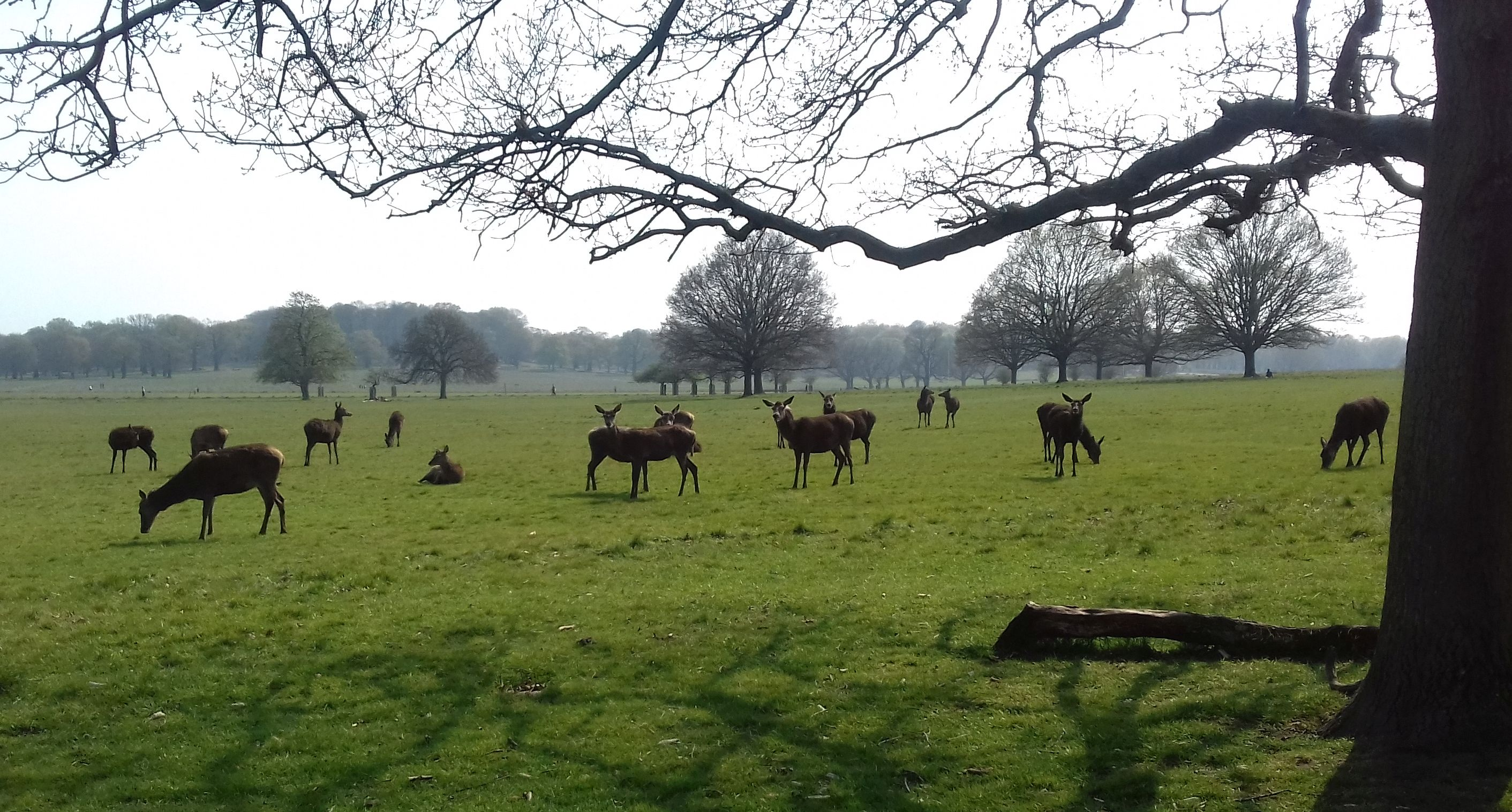 Red deers in the Richmond Park